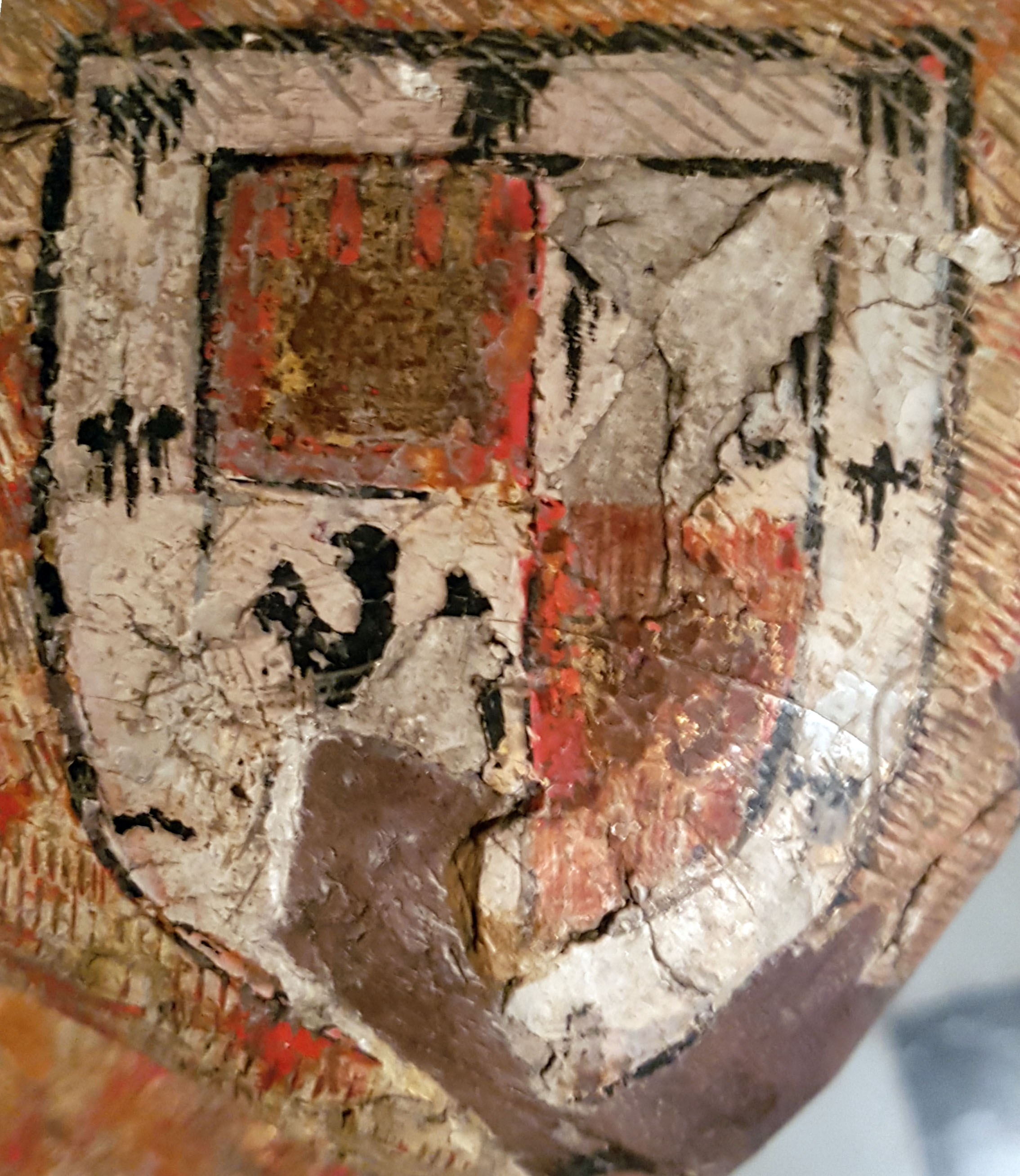 Polychrome quite sarcophagi of Tello of Castille in convent of Saint Francis in Palencia (Castile and León, Spain)